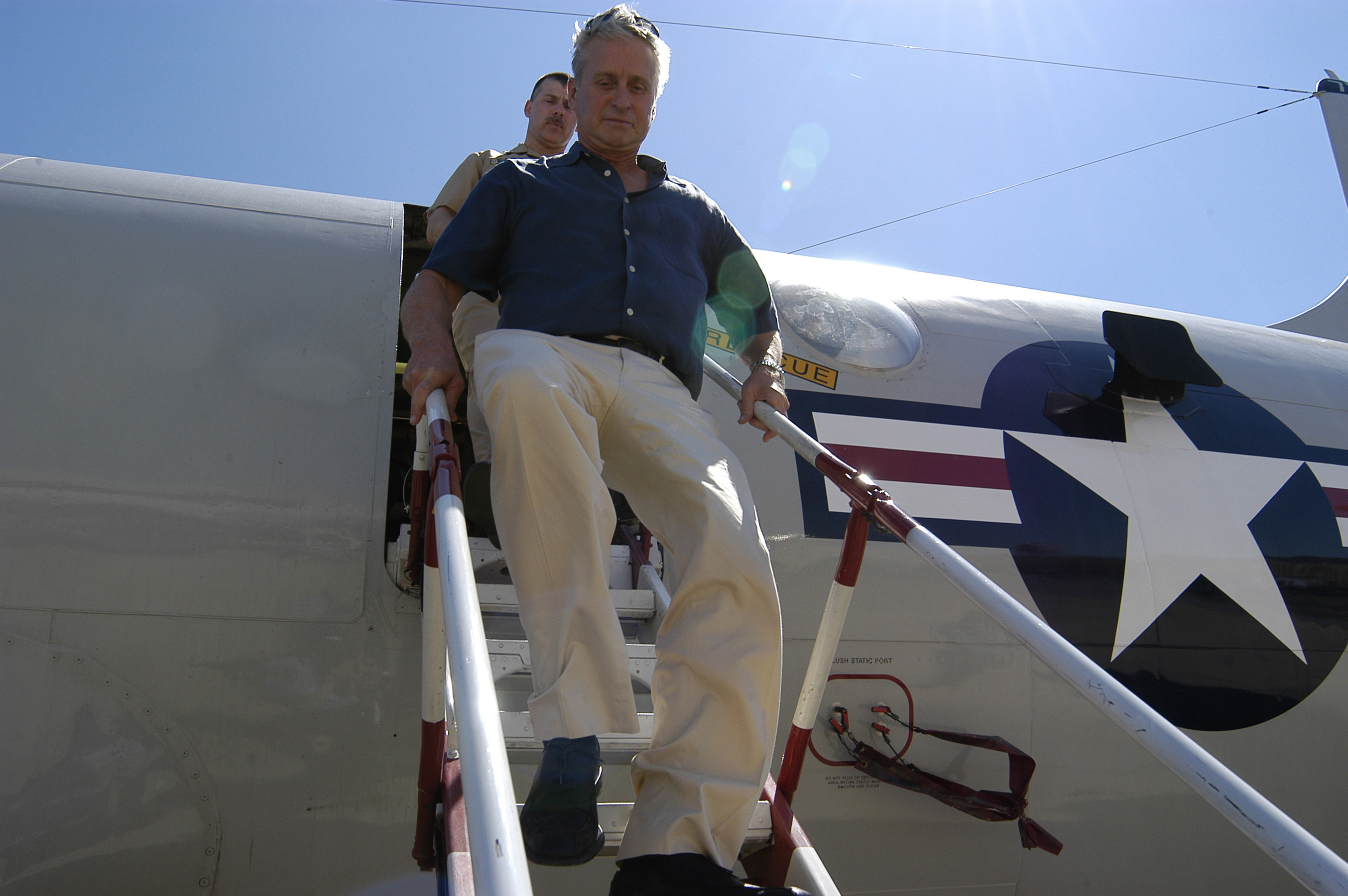 040619-N-5821W-007 Naval Air Station Sigonella, Sicily (Jun. 19, 2004) - Oscar winning actor/producer Michael Douglas descends a ladder after his visit aboard a P-3C Orion assigned to the "Tridents" of Patrol Squadron Two Six (VP-26,). Douglas visited Naval Air Station (NAS) Sigonella to meet, sign autographs and pose for photos with sailors and their family members before appearing at the Taormina Film Festival in Taormina, Sicily. VP-26 is currently deployed to NAS Sigonella, and is based in Brunswick, Maine.